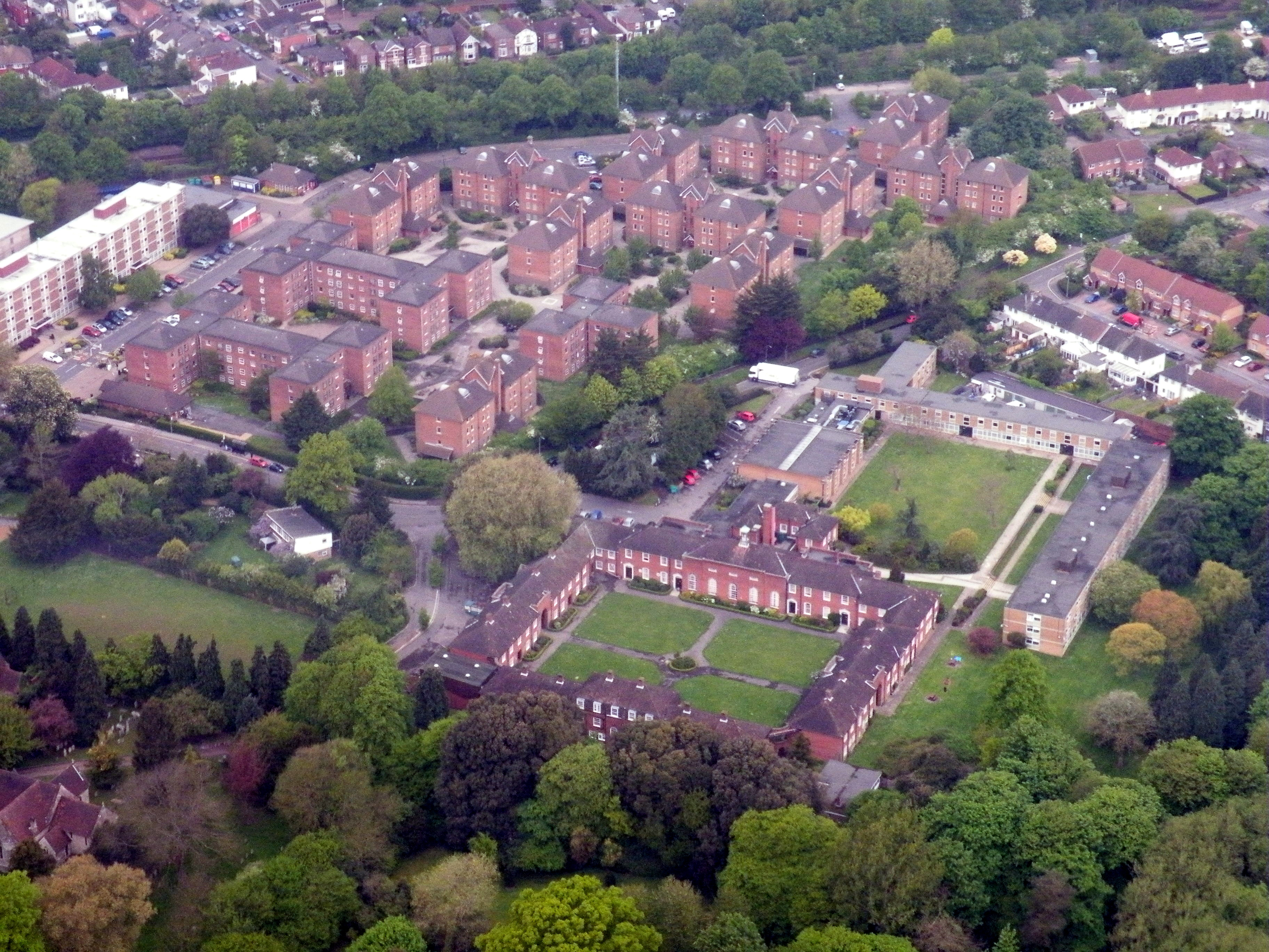 An image of Wessex Lane Halls of Residence. Top left is Montefiore House, bottom right is Connaught Hall.